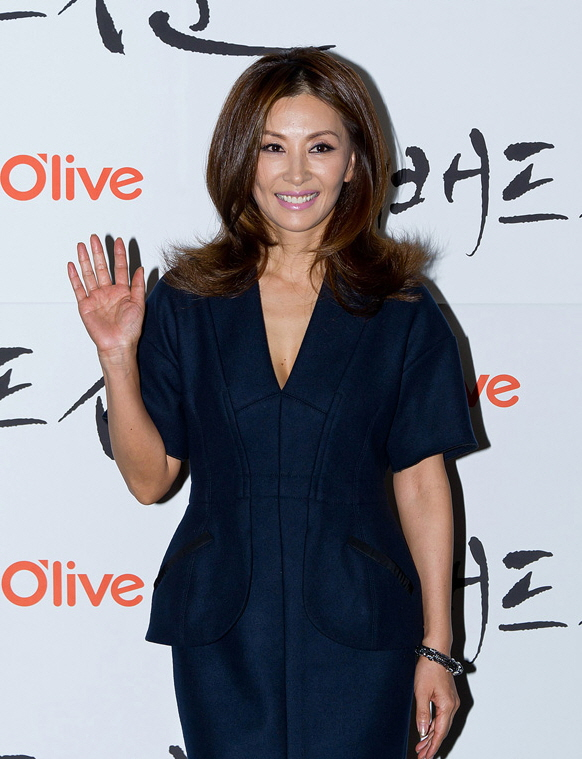 Lee Mi-sook at O'live Bad Scene premiere, on October 10, 2011